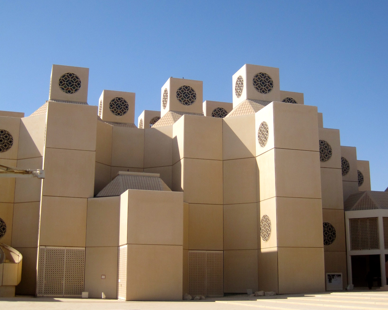 Qatar University.Campus